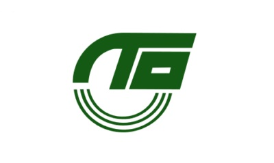 Flag of Ishikawa Okinawa